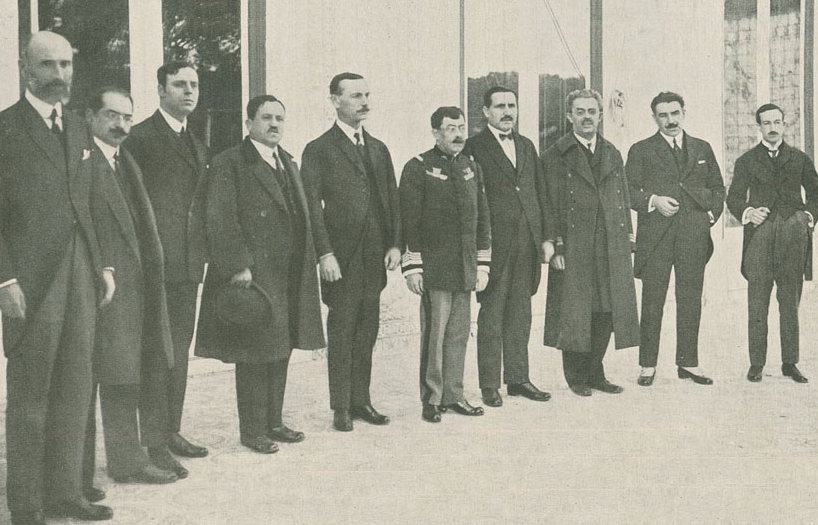 Portrait photograph of the Portuguese cabinet (1920), led by António Maria Baptista. From left to right: João Luís Ricardo, Bartolomeu Severino, Vasco Borges, Aníbal Lúcio de Azevedo, Estêvão Águas, António Maria Baptista, Pina Lopes, Judice Bicker, Xavier da Silva, Fernando d'Utra Machado